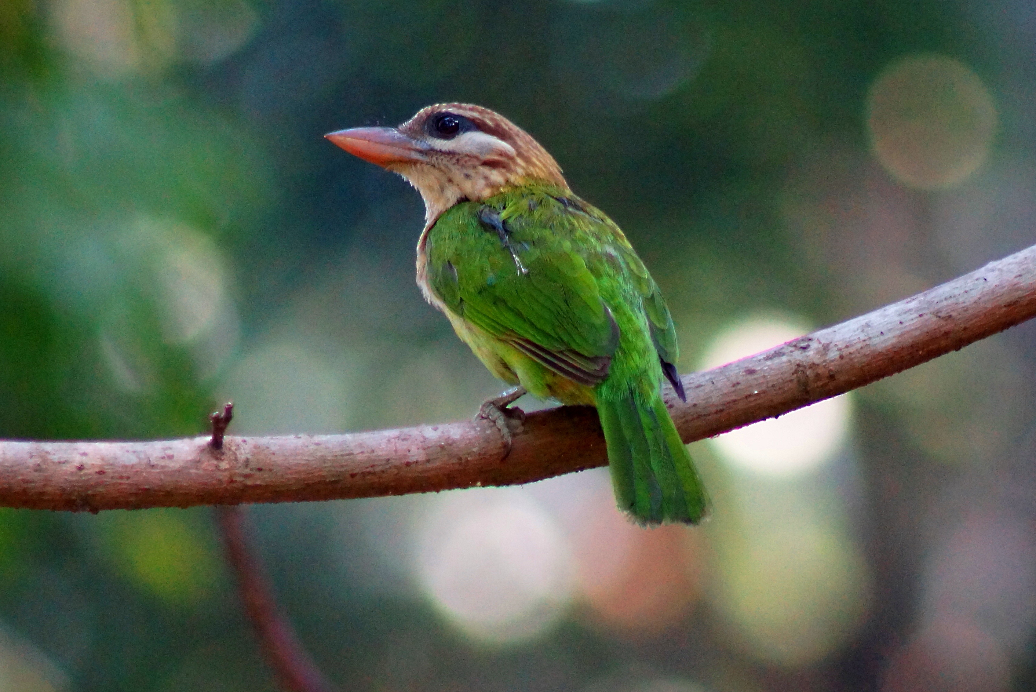 The White-cheeked Barbet or Small Green Barbet (Megalaima viridis) is a species of barbet found in southern India.